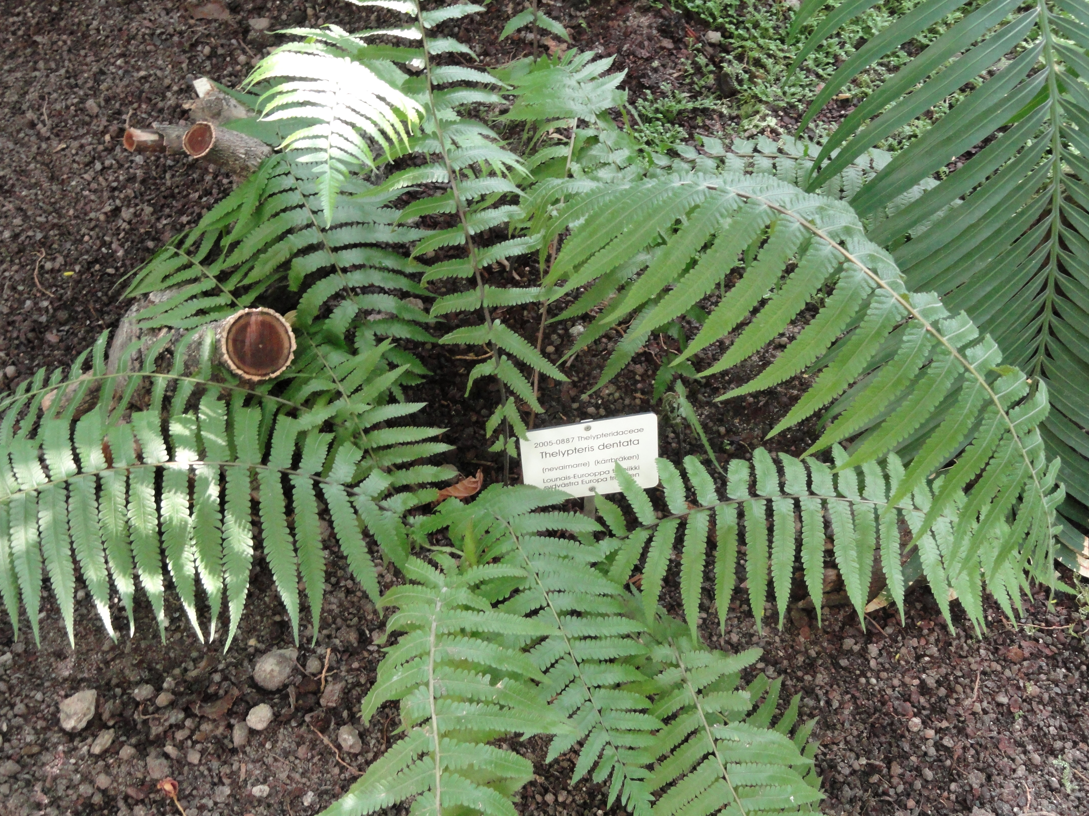 Botanical specimen. The University of Helsinki Botanical Garden at Kaisaniemi